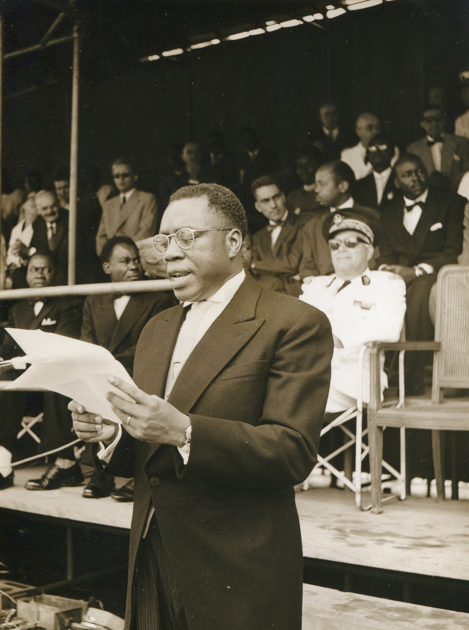 Prime Minister André Marie Mbida's speech in Yaounde